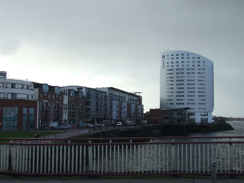 The Clarion Hotel Limerick